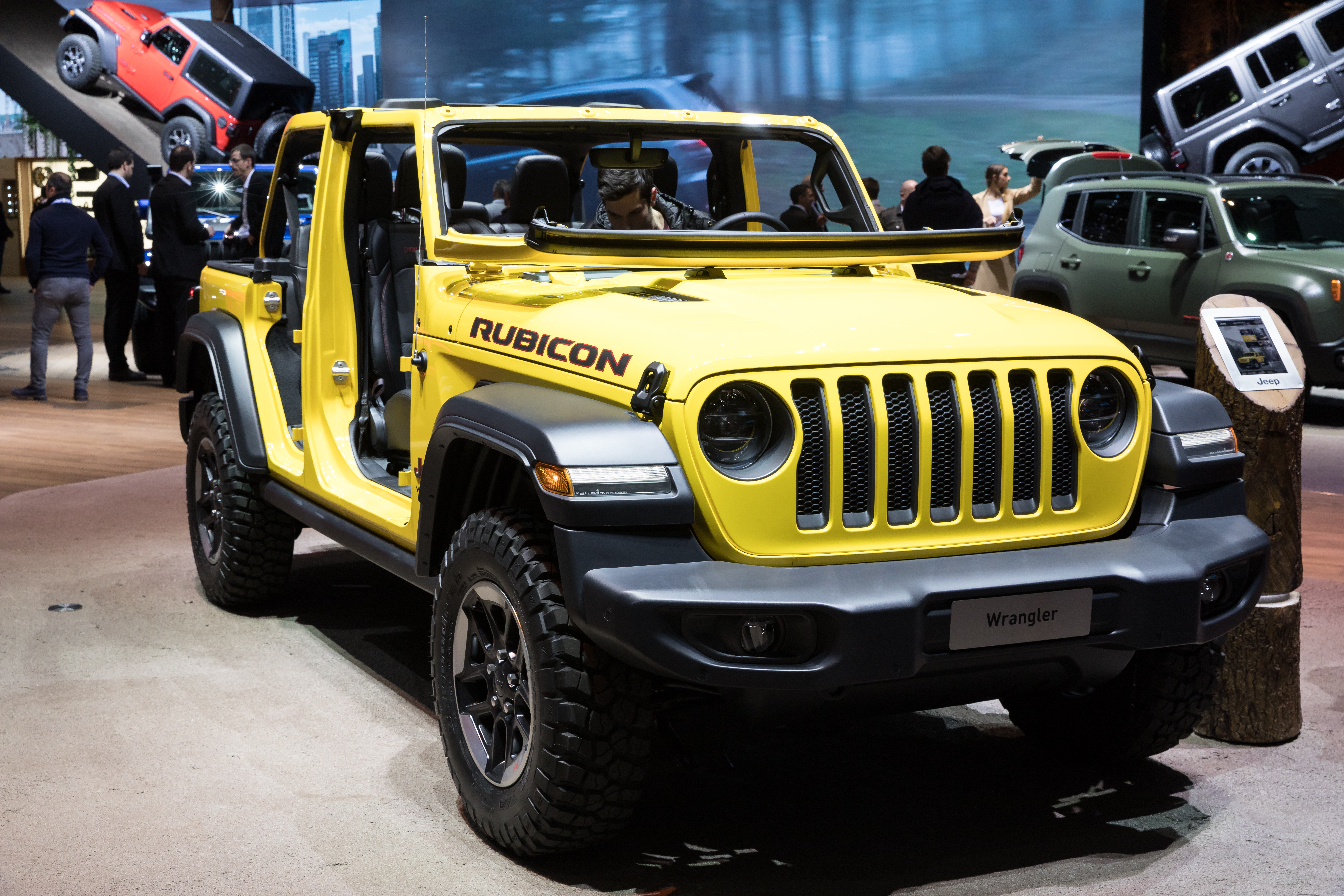 Jeep Wrangler Rubicon, Geneva International Motor Show 2018